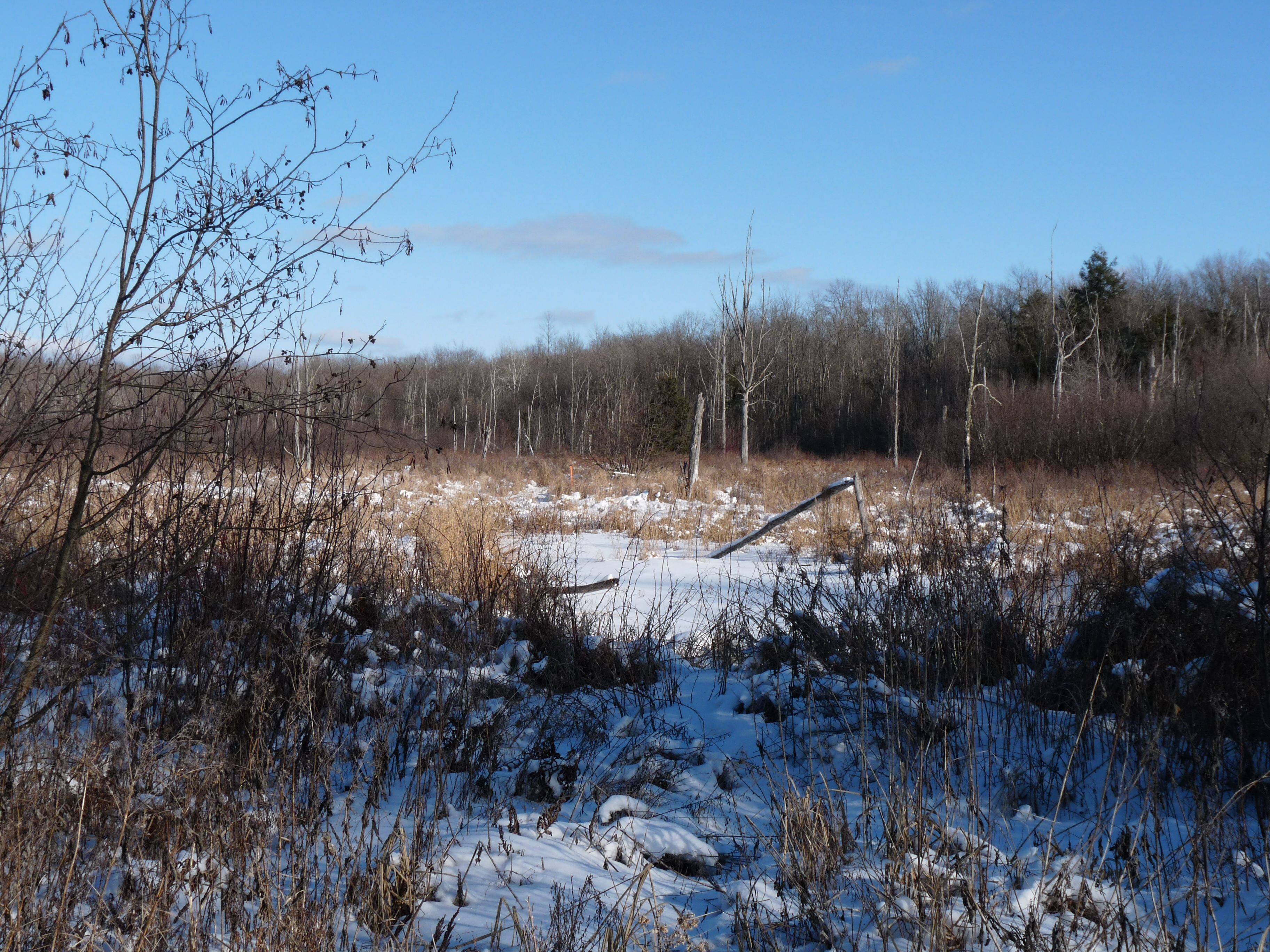 Winter swamp in town of Lawrence in north-central Wisconsin.